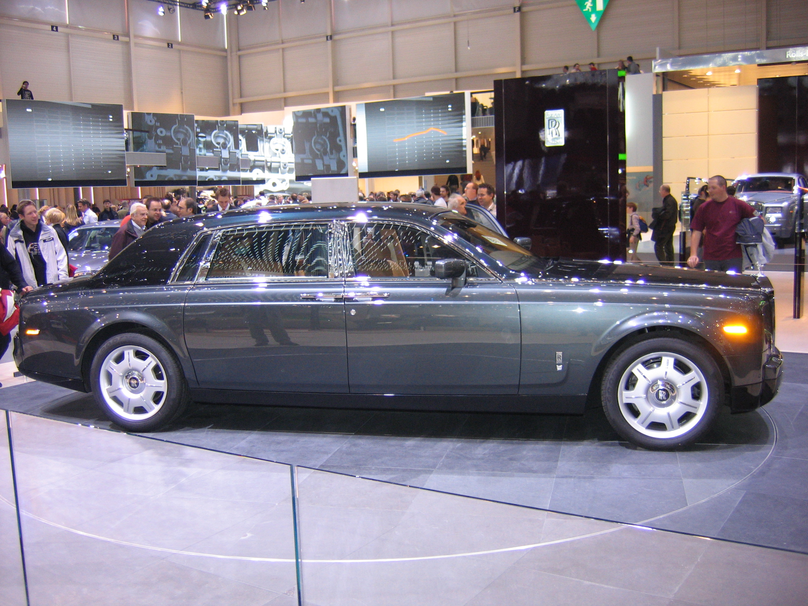 Geneva Motor Show 2005